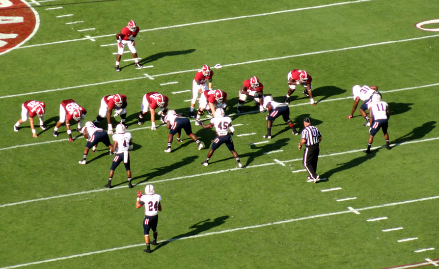 The Alabama Crimson Tide line up on offense against the defense of the Florida Atlantic Owls at Bryant–Denny Stadium.